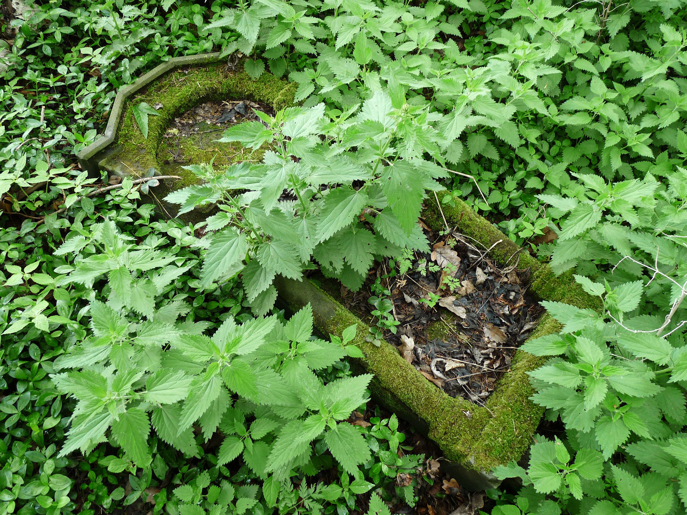 Jewish cemetery in the village of Bosyně, part of the munucipality of Vysoká, Mělník District, Czech Republic